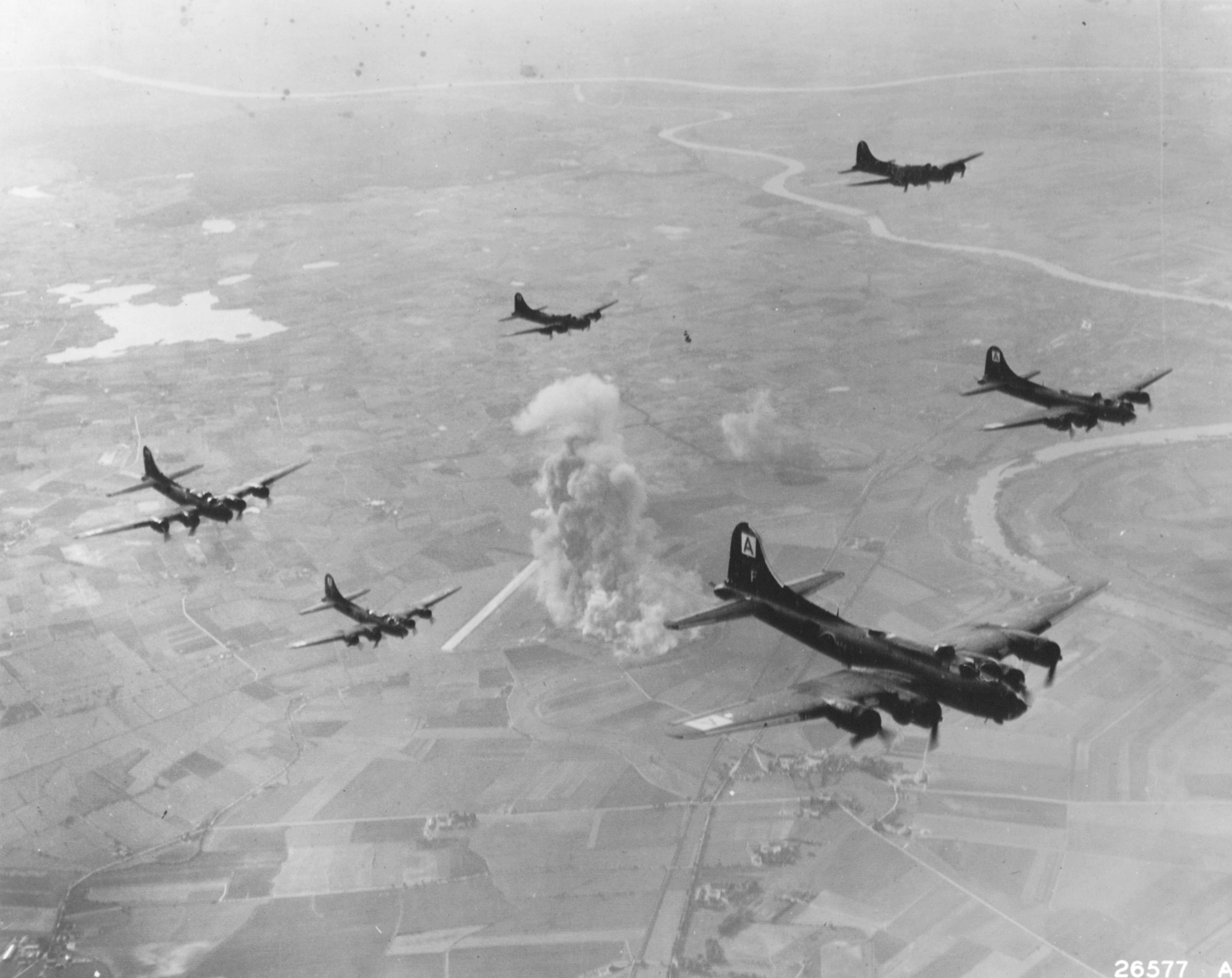 American bomber having just released it's bomb-load over the Focke-Wulfe factory in Marienburg.